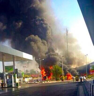 A fire in Ashdod caused by a Gaza rocket For more updates: The Israel Defense Forces Facebook The Israel Defense Forces blog Follow us on Twitter